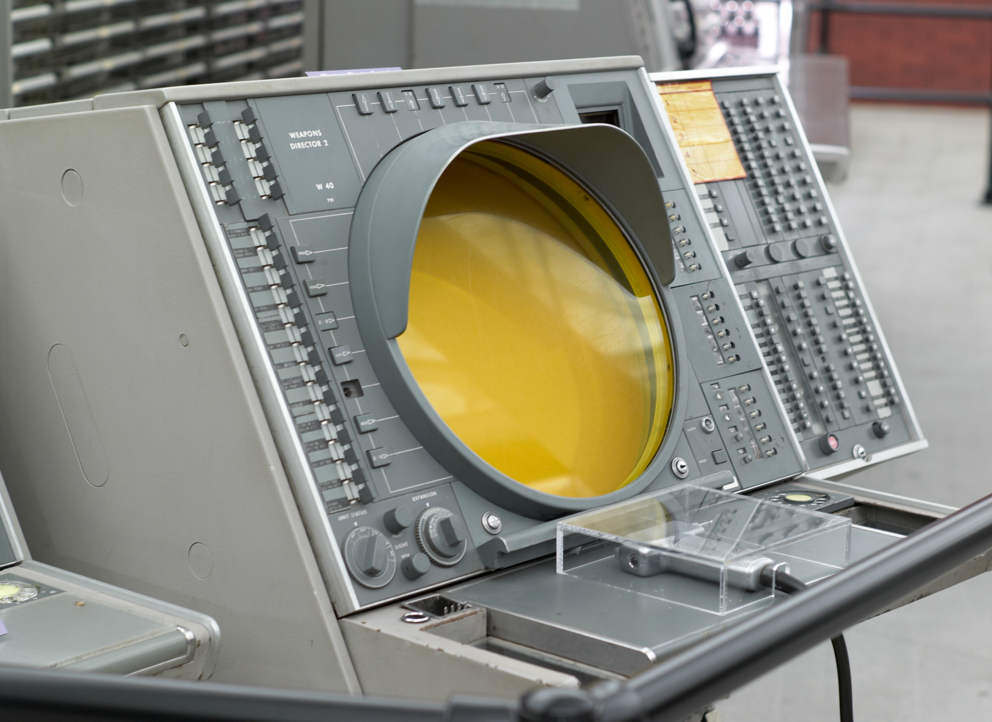 A SAGE (Semi-Automatic Ground Environment) terminal used during cold war to analyze radar data in real time to target Soviet bombers. The light pen, which was shaped similar to a handheld power drill or gun, is resting on the console. Notice the built-in cigarette lighter and the ashtray just left of the light pen. Located at the Computer History Museum in Mountain View, California.